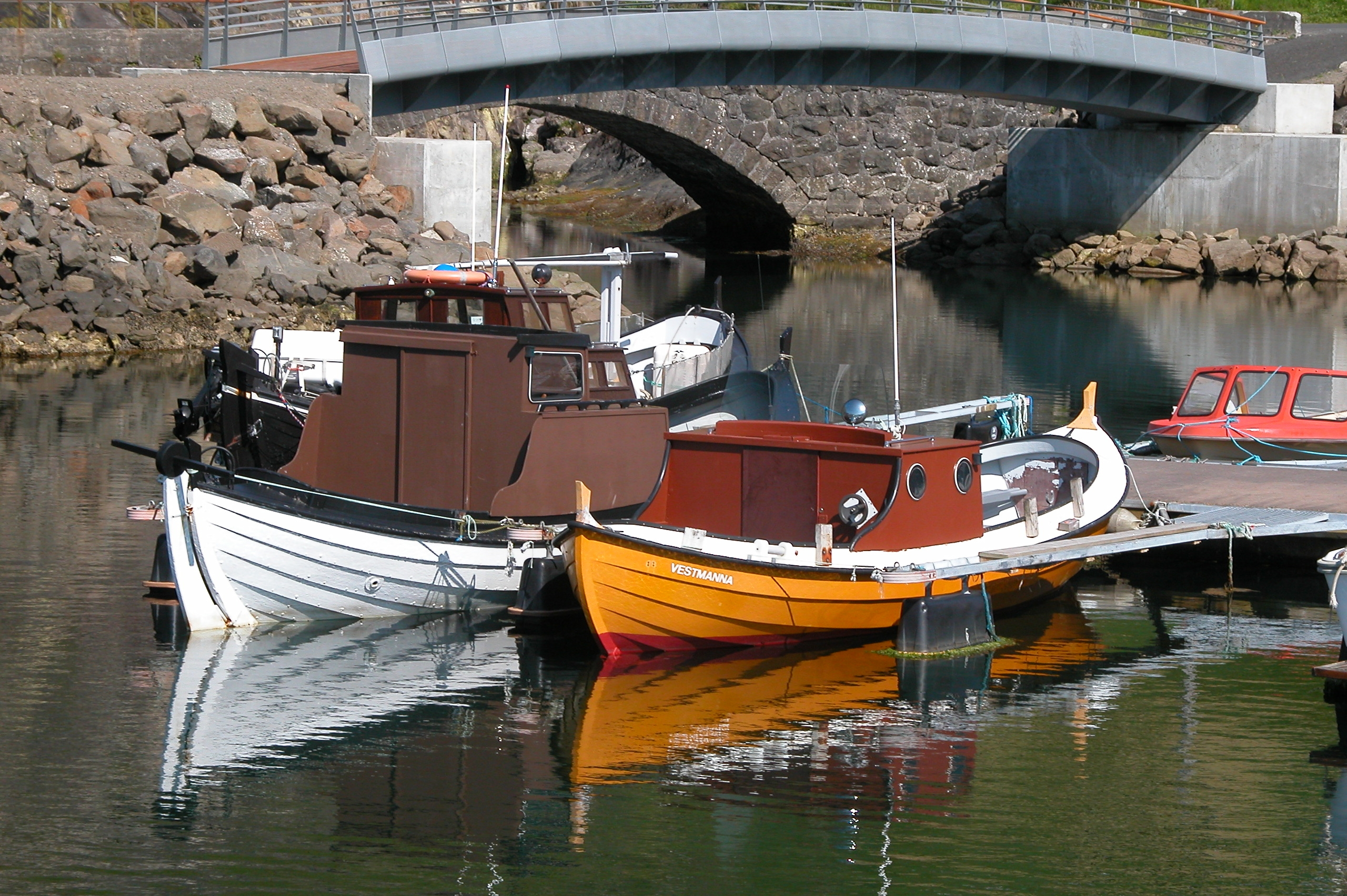 Faroe boats of Vestmanna on Streymoy, Faroe Islands